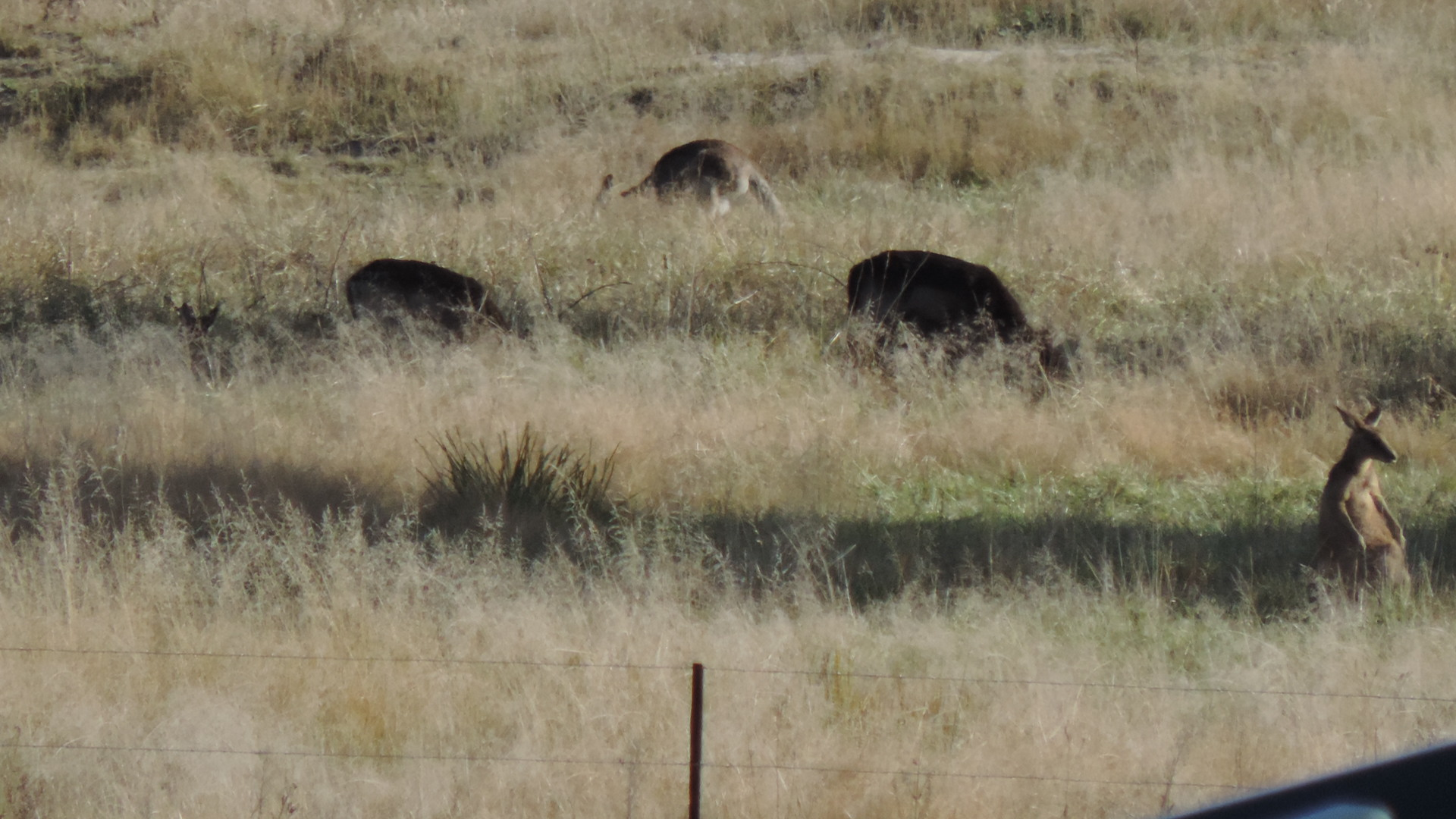 Rural views (cows and wallabies) from Lyra Cafe, 2015